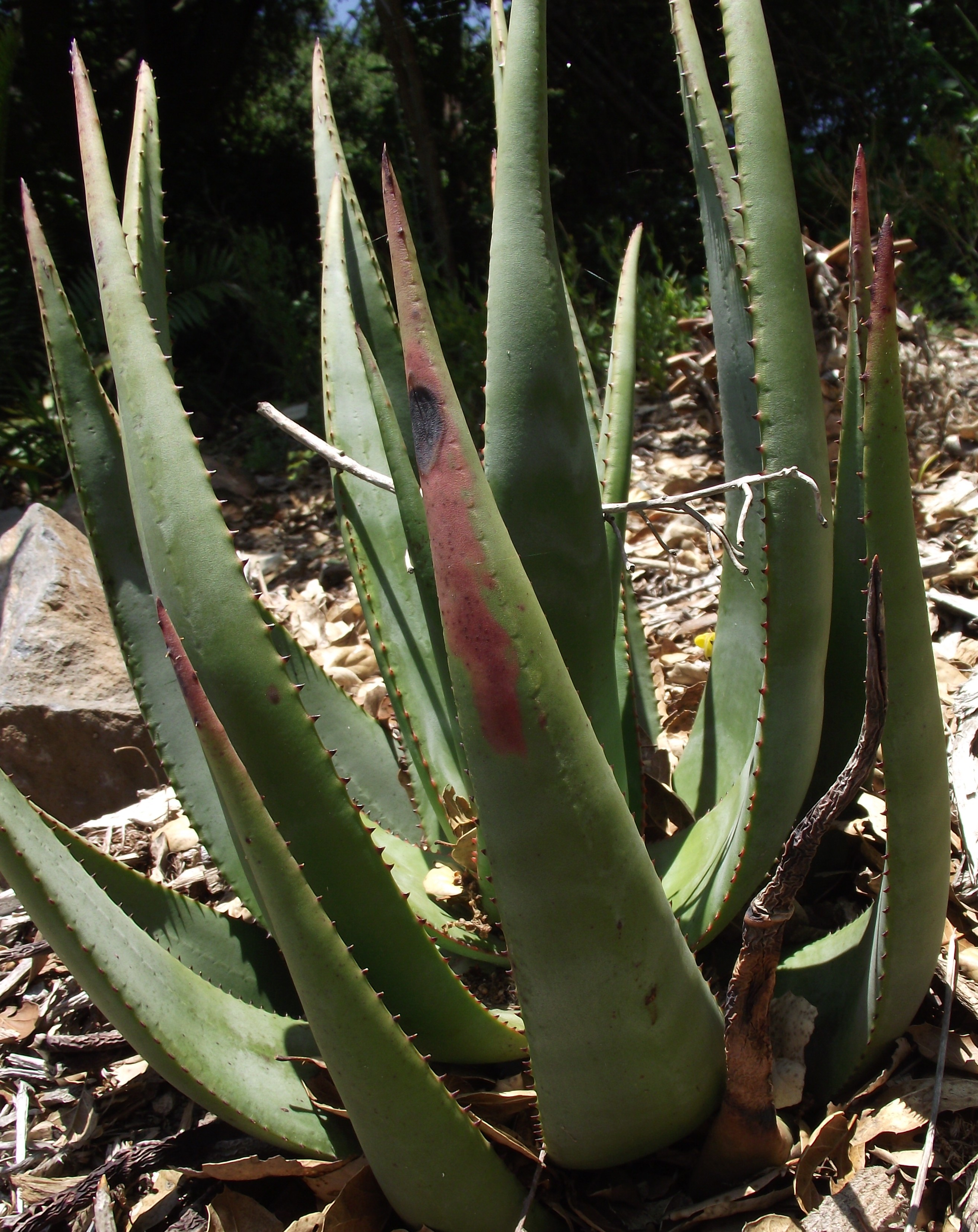 Aloe wickensii = Aloe cryptopoda at the UC Botanical Garden, Berkeley, California, USA. Identified by sign.